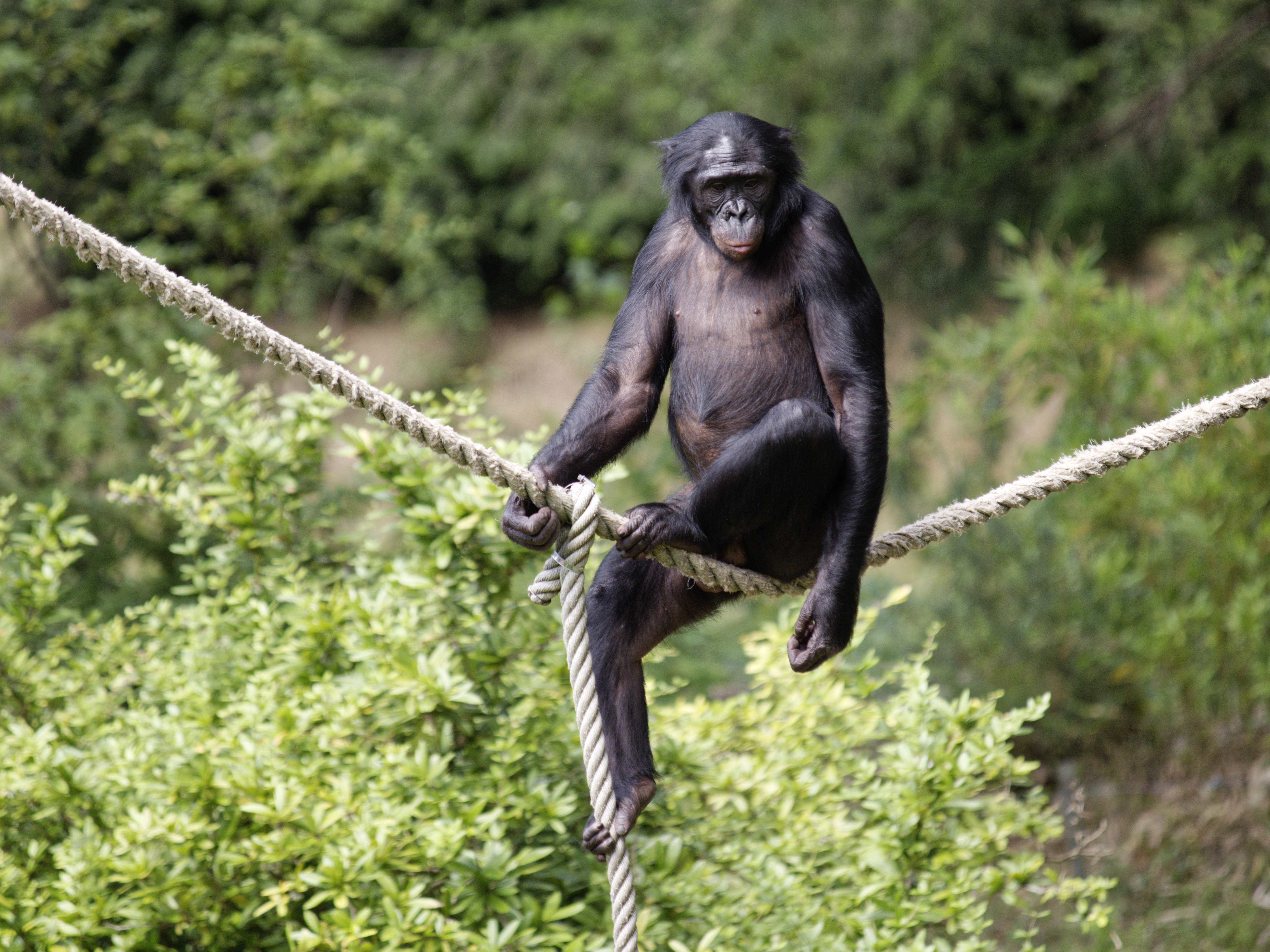 Bonobo sitting on a rope at Apenheul Primate Park